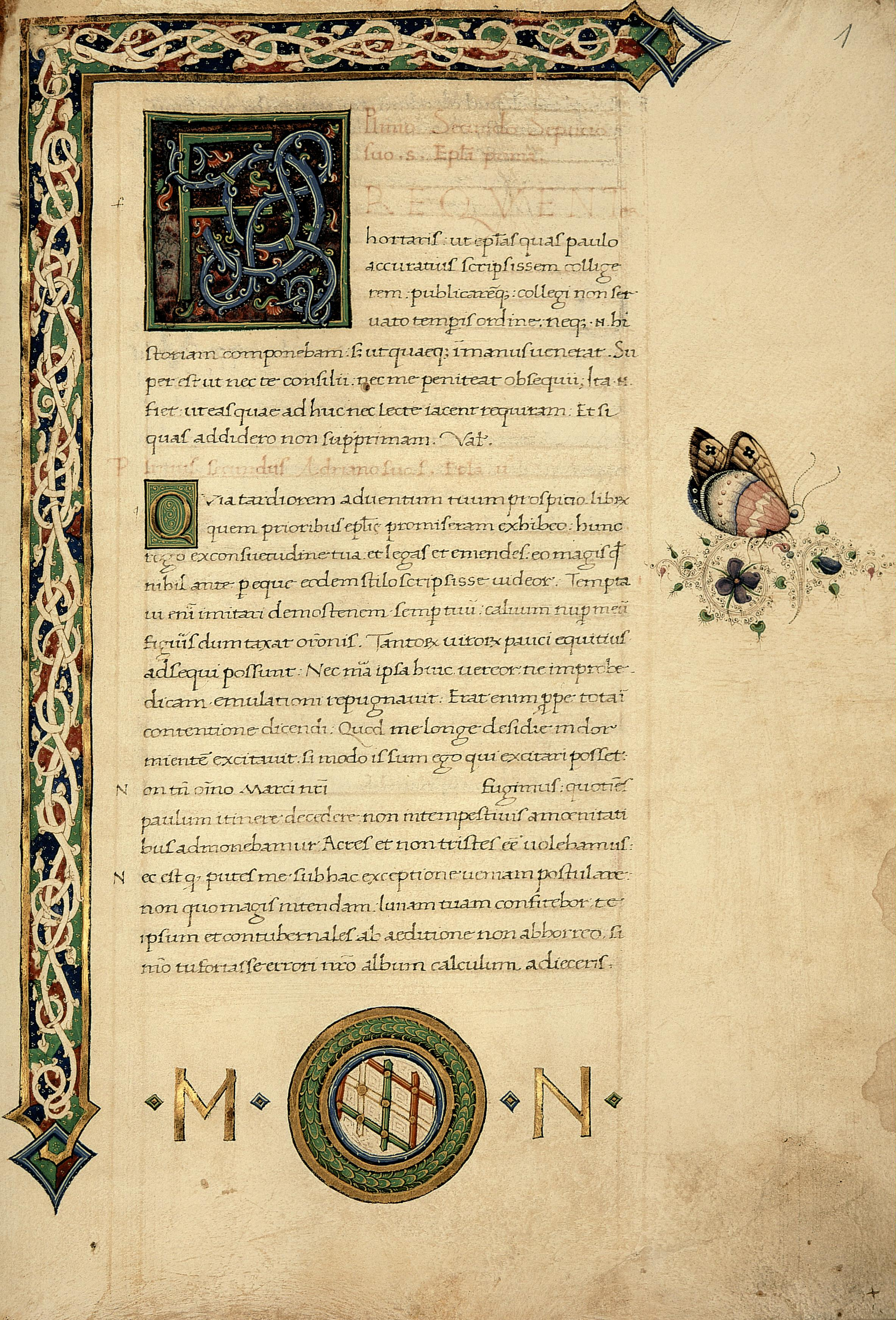 The beginning of Pliny’s letters in the manuscript Cesena, Biblioteca Malatestiana, Ms. S.XX.2, fol. 1r.